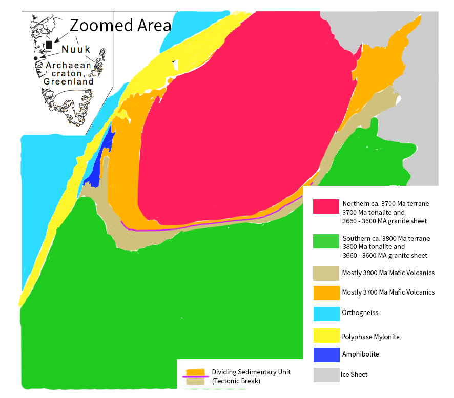 Isua illustration